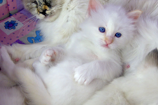 Sacred Birman cat, adult female with kittens